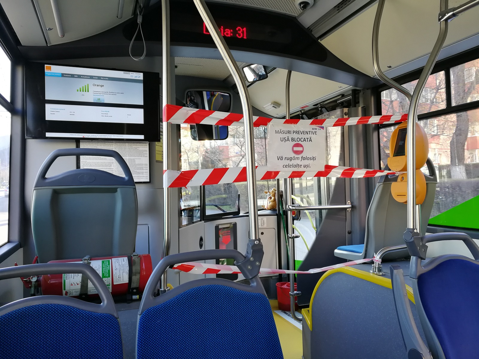 City bus in Brasov (line 31) during the COVID-19 pandemic; driver area sealed off to protect the driver